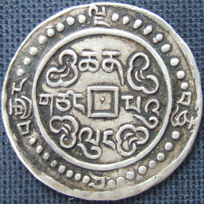 Tibetan tangka, dated year 58 of Qian Long era, reverse